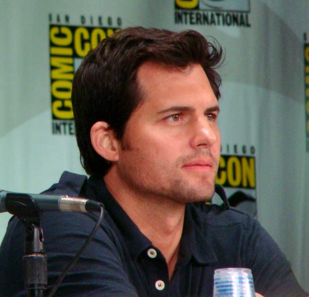 Kristoffer Polaha at Ringer Panel at the 2011 Comic-Con International